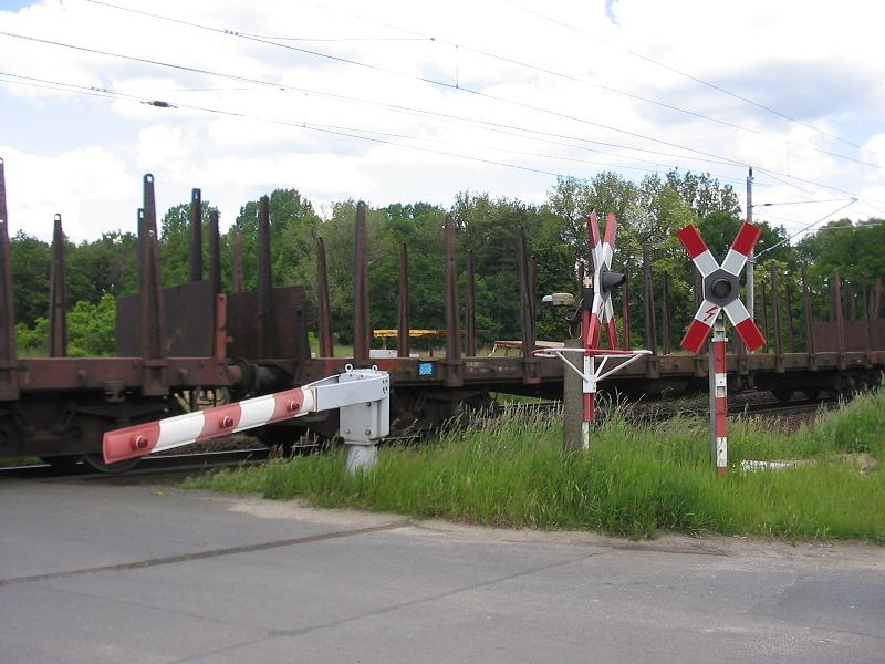 Berlin-Blankenheim railway line in the village Trebitz, an incorporated part of the town Brück in Brandenburg, district Potsdam-Mittelmark, Germany.